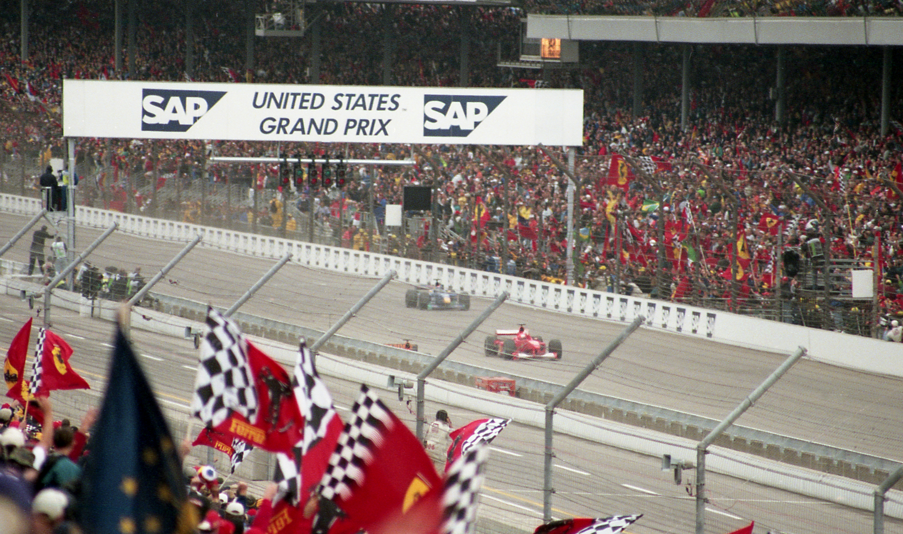 Speedway president Tony George waves the checkered flag for Michael Schumacher at the finish of the 2000 United States Grand Prix.